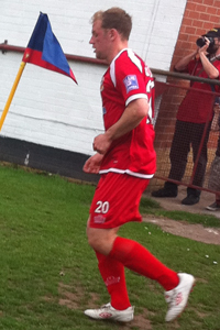 Photo taken by myself of Ben Wilkinson during the Tamworth Vs. Southport game on April 23 2011 at The Lamb Ground.